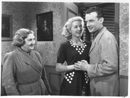 María Luisa Santés - Nelly Darén - Ricardo Passano